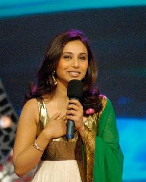 Indian actress Rani Mukerji